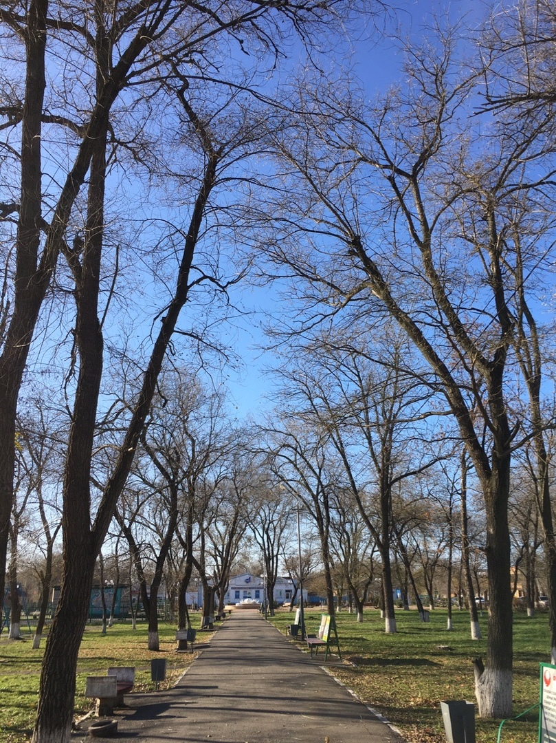 park v Gorodovikovske